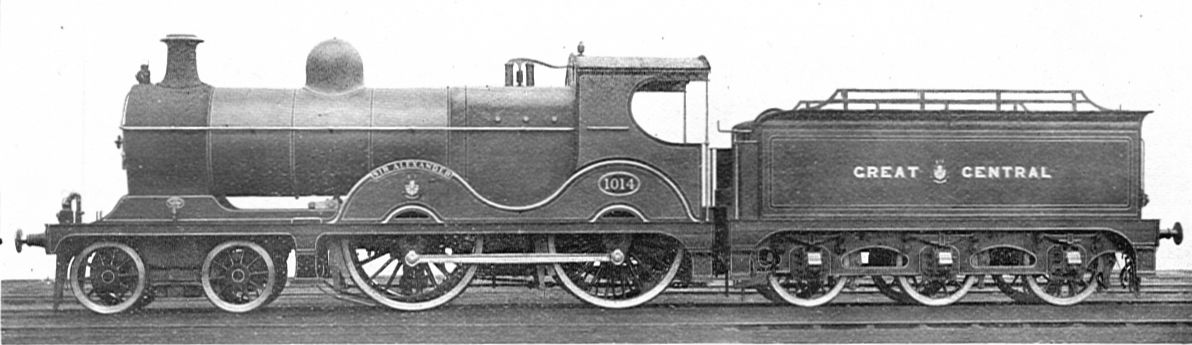 Great Central Railway: Express Engine with Belpaire Firebox GCR Class 11B Nº 1014, Sir Alexander